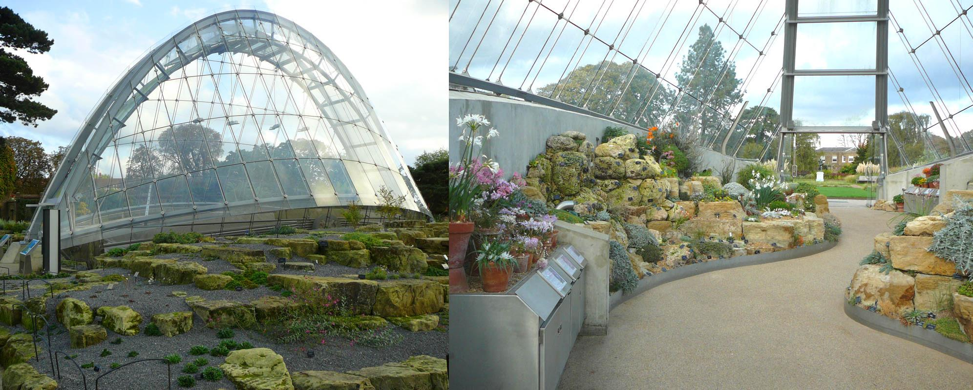 Davies Alpine House - Kew Gardens - London